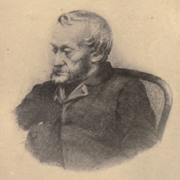 Charles Langdale, British politician and leading Roman Catholic figure in England during the 1800s, depicted in the publication containing his funeral discourse.